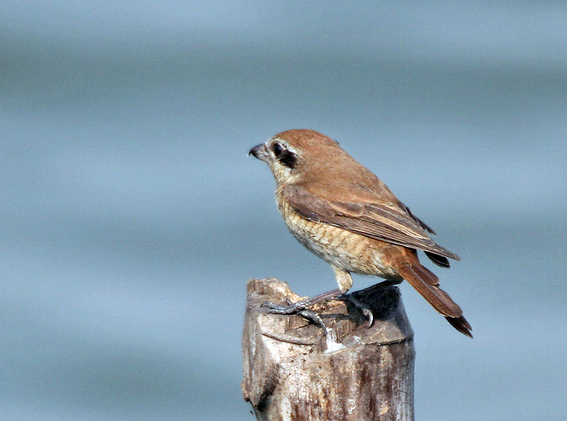 Brown Shrike Lanius cristatus in Kolkata, West Bengal, India.